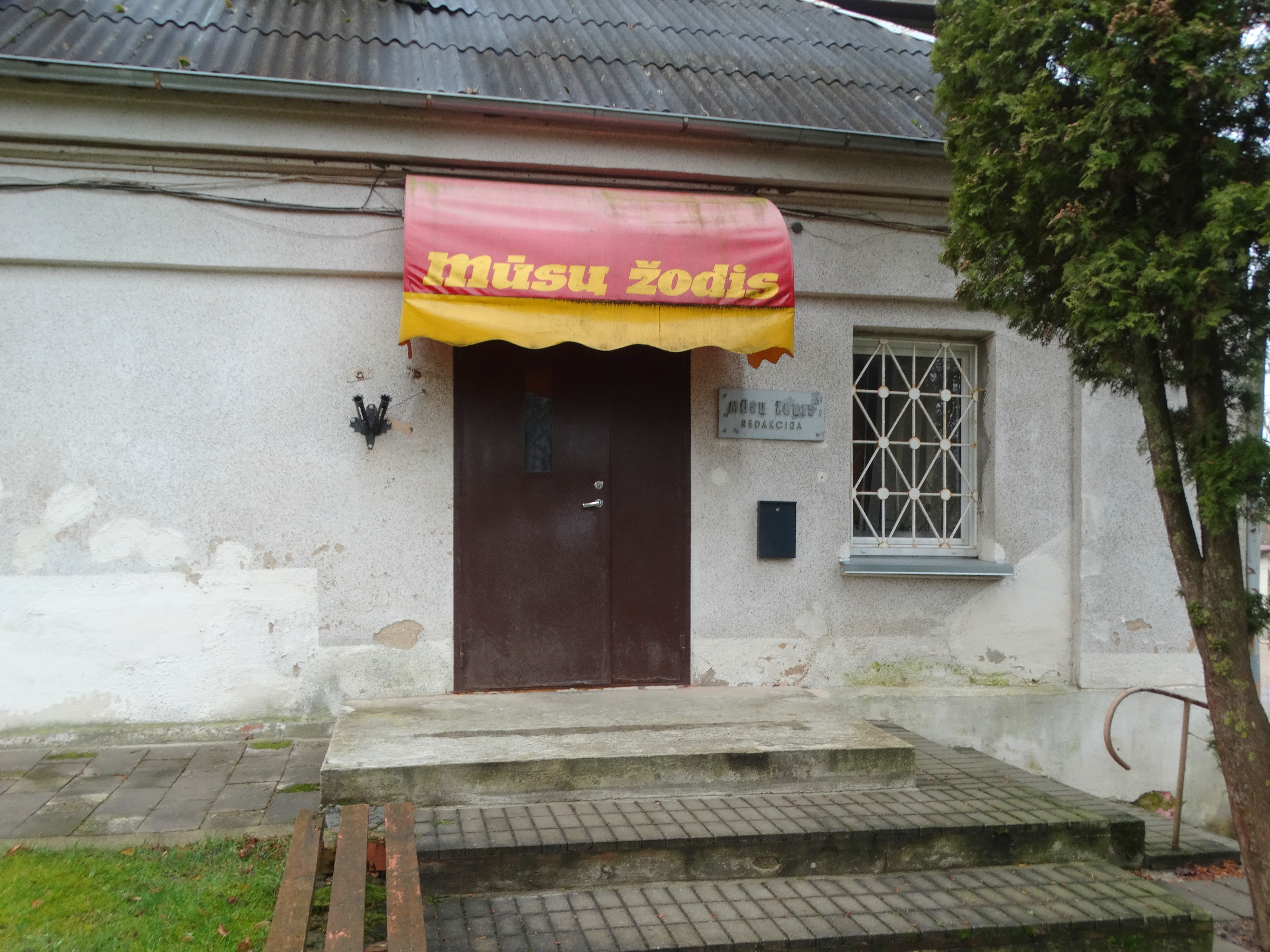 „Mūsų žodis“, newspaper editorial, Skuodas, Lithuania